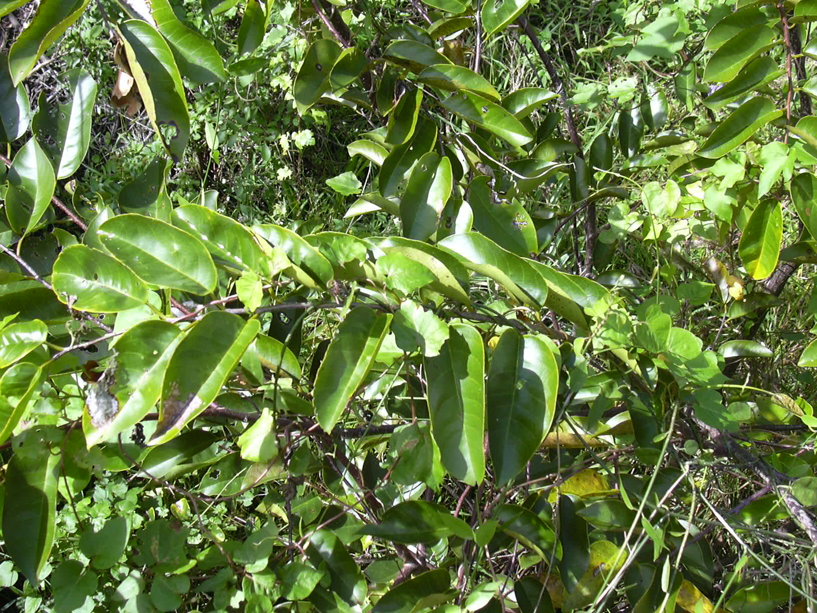 Annona glabra (habit). Location: Florida, Deering Park